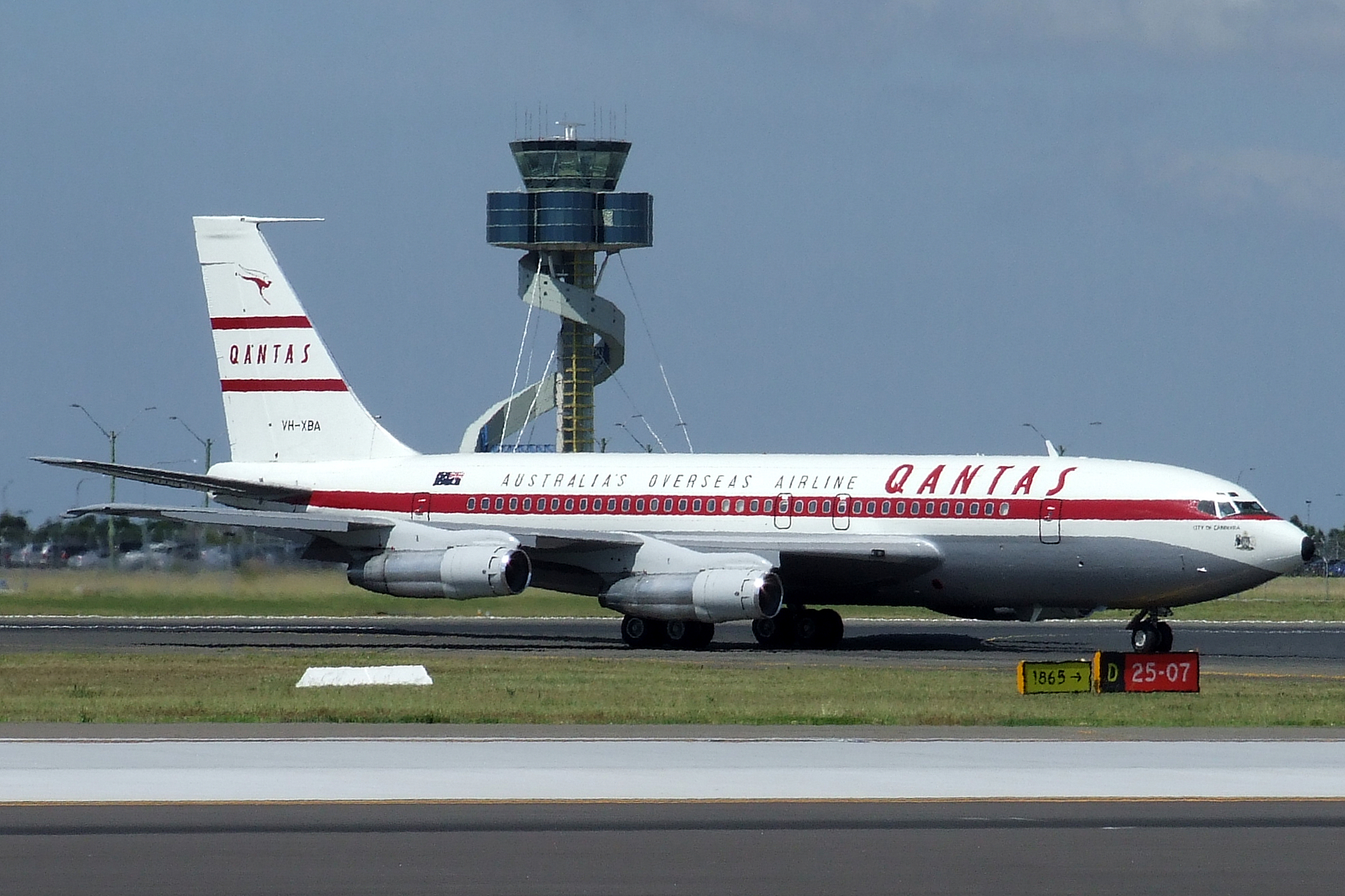 Qantas was the only customer to order the short-fuselage Boeing 707-130 series. A surviving 707-138 is seen here in Qantas period colours prior to delivery to a museum. Digital photo of VH-XBA taken by YSSYguy at Sydney Airport on 16 February 2007, and uploaded for use in the Qantas article.